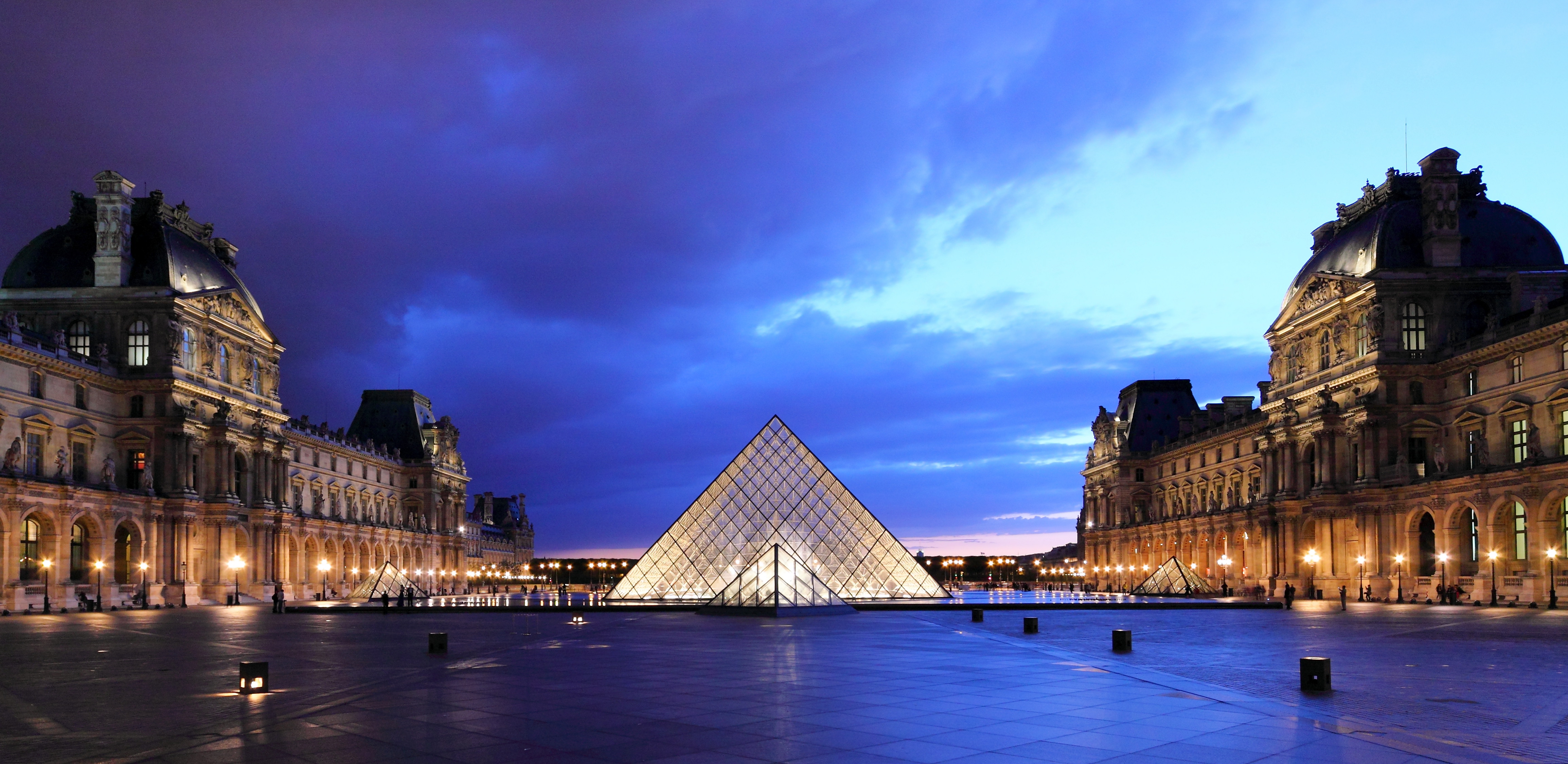 Louvre at dusk. Louvre pyramid, Cour Napoléon, Palais du Louvre, Ier arrondissement, Paris, France.